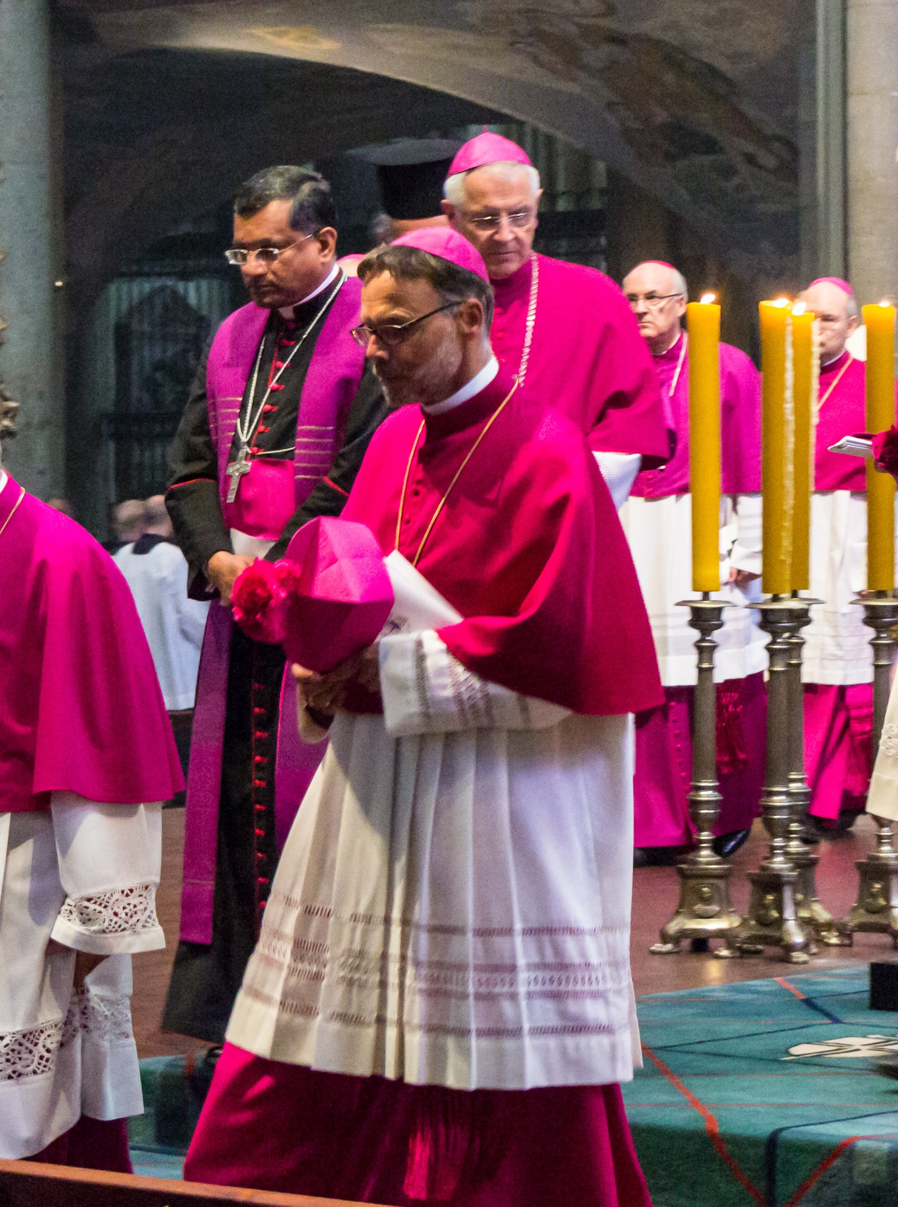 Exsequien Joachim Meisner